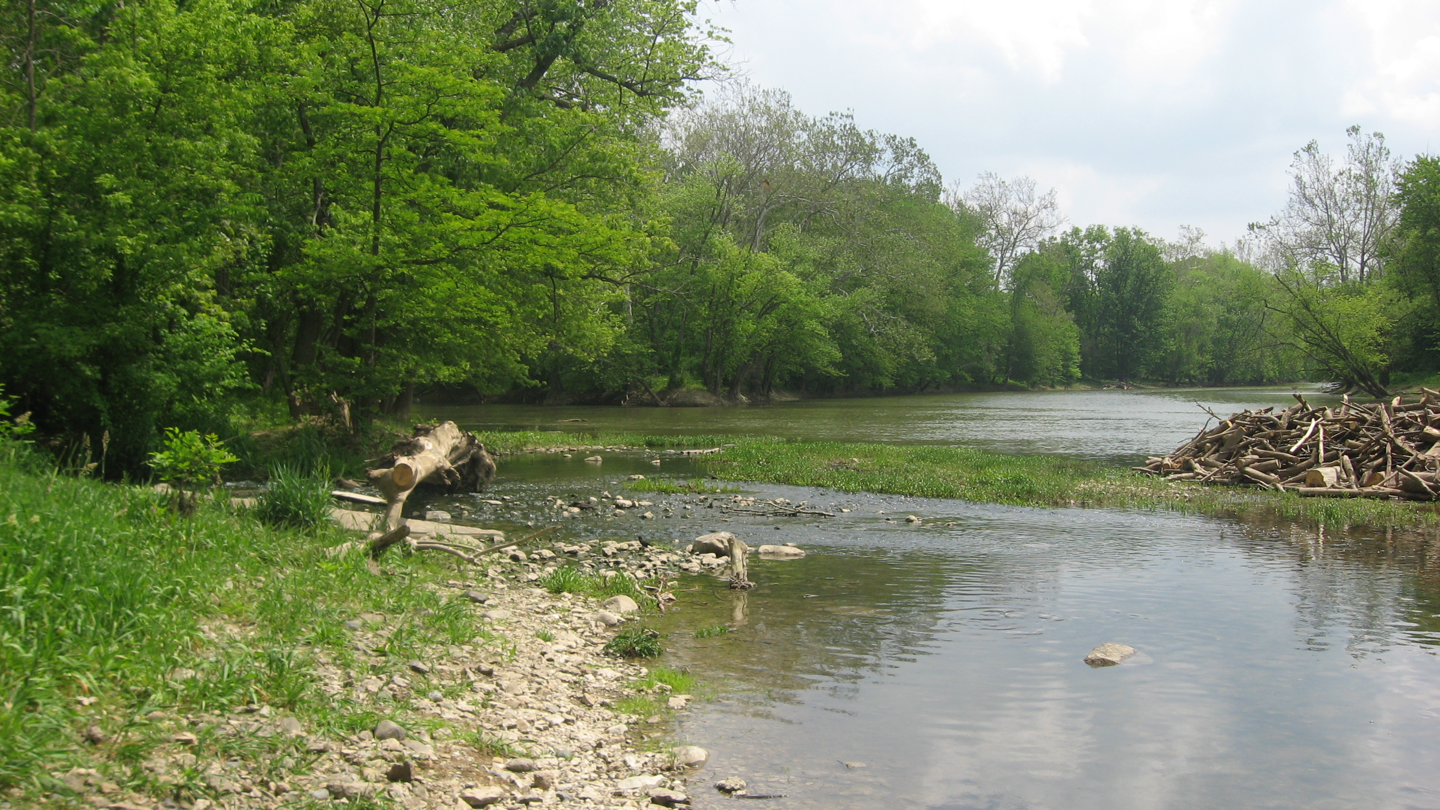 Surface-level view of the Forks of the Wabash: the confluence of the Wabash River (right) with the Little Wabash River (left), at the western edge of Huntington, Indiana, United States. Picture looks eastward from the riverbank under the bridge carrying State Road 9 over the Wabash. The site is part of the historic district known as the Chief Richardville House and Miami Treaty Grounds, which is listed on the National Register of Historic Places.